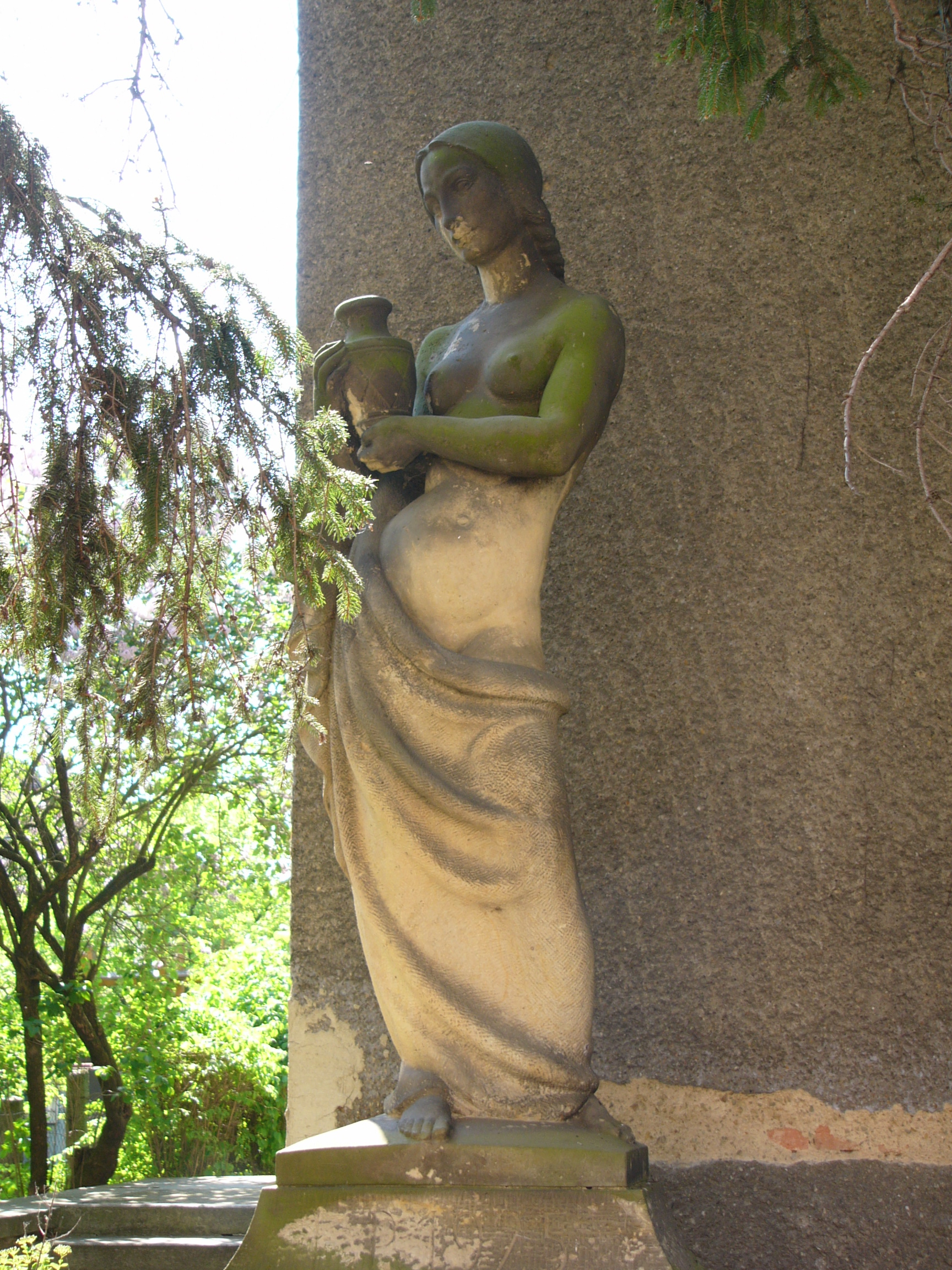 statue by Julius Pelikán near vila of Julius Pelikán at Na vozovce street in Olomouc (Czech Republic).